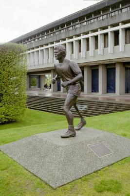 Statue of Terry Fox, Simon Fraser University, Burnaby Campus Taken by User:Gareth Owen, Vancouver trip, en:2003. Cheers